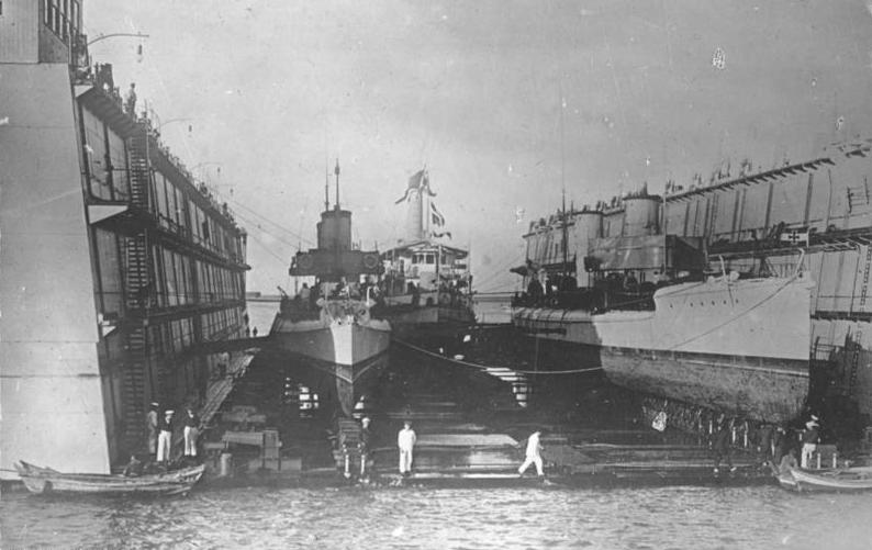 China, Tsingtau Torpedoboote im Tsingtauer Dock Information added by Wikimedia users.